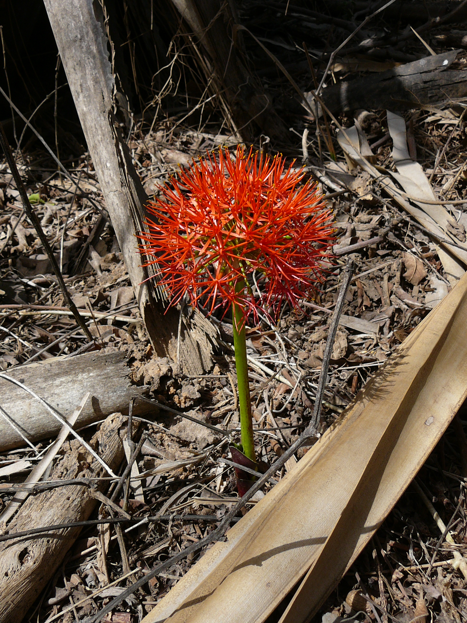 Fireball lily or Blood lily